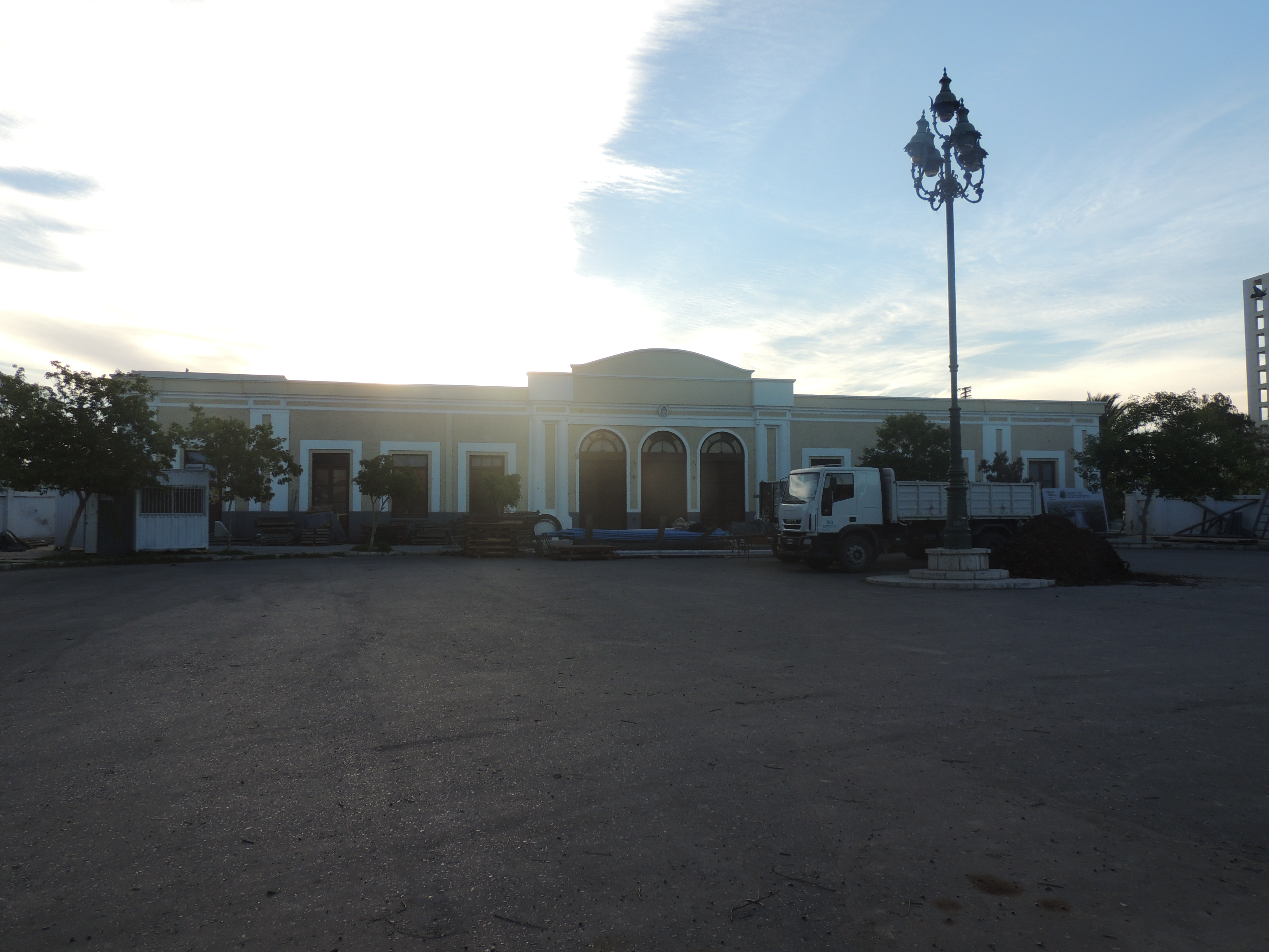 San Juan station, of the San Martin Line